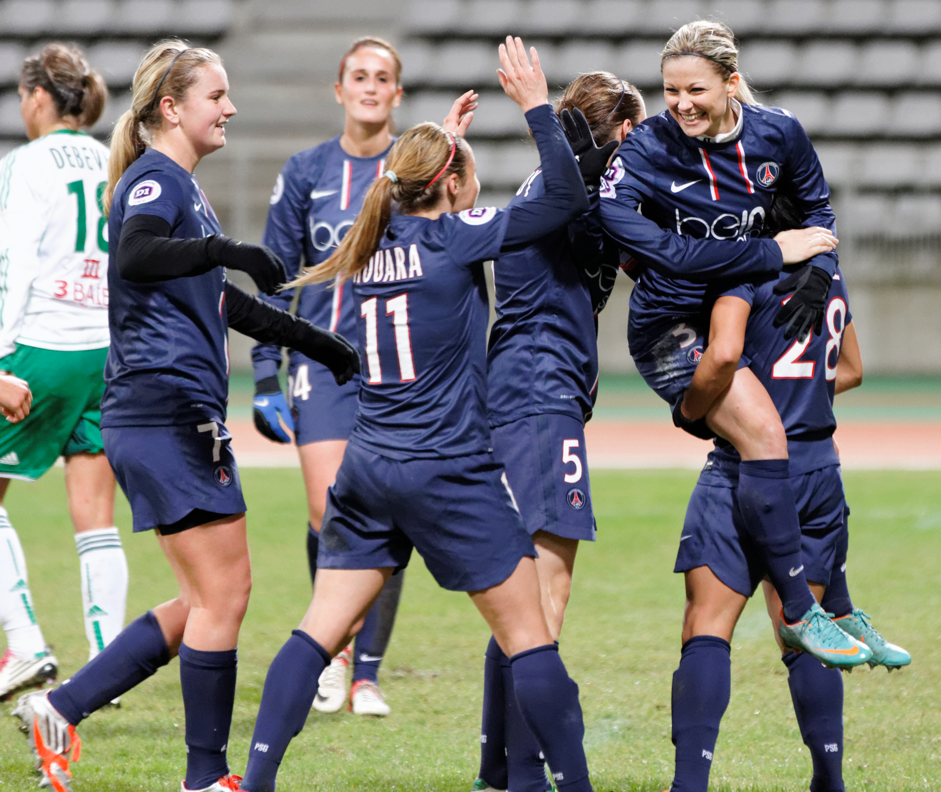 PSG-AS Saint-Étienne, december 16th, 2012. Goal celebration of PSG players.